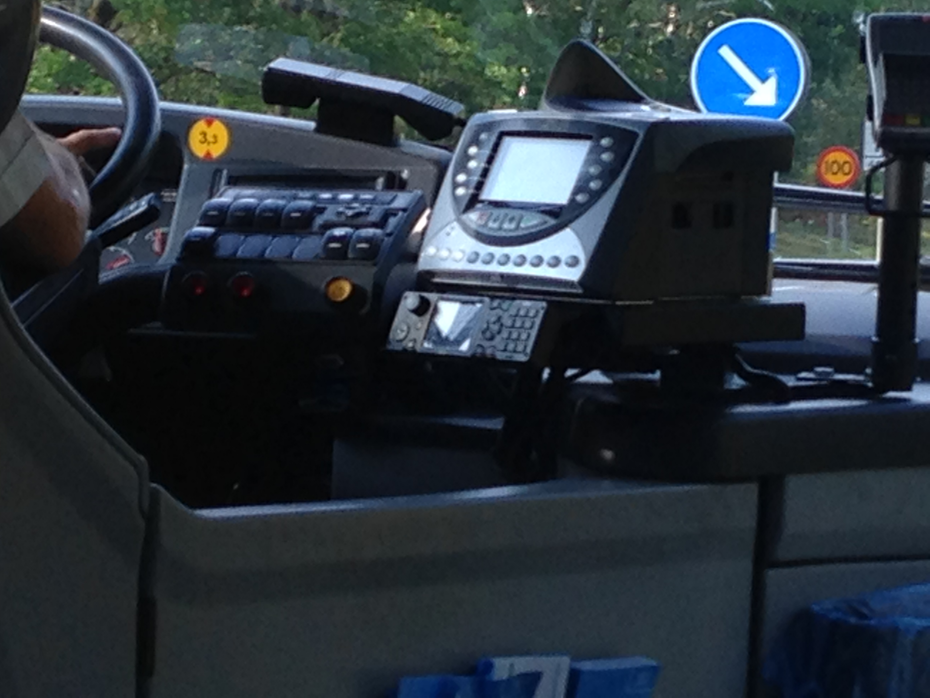 This is a picture of the driver compartment in a Västtrafik Volvo 8900 bus